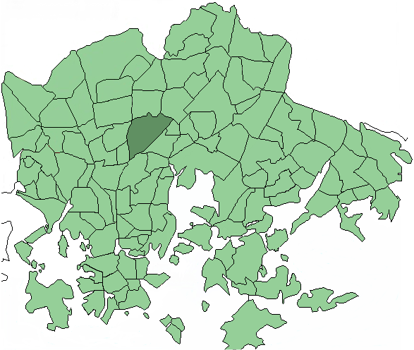 Districts of Helsinki, Patola highlighted.